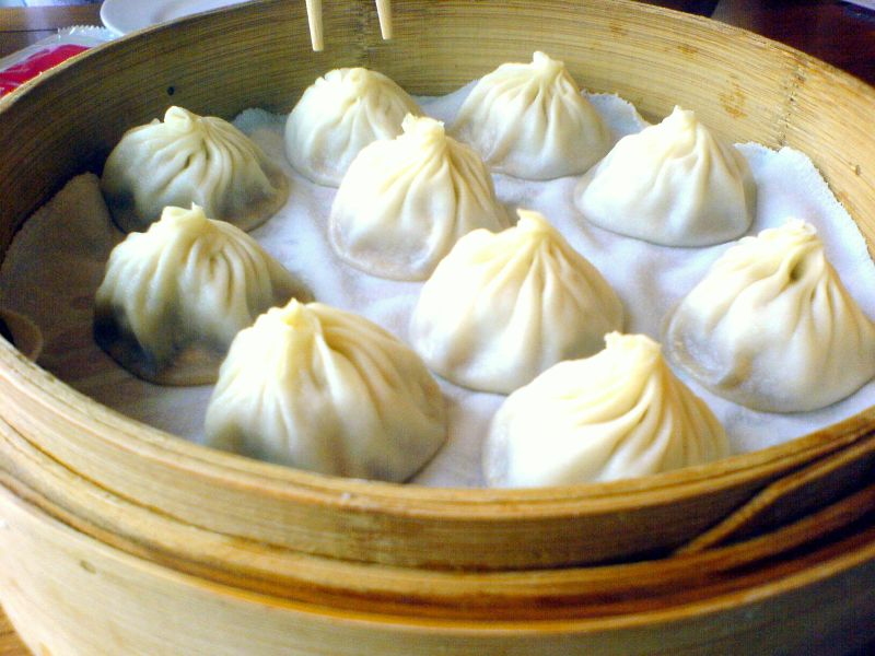 Xiaolongbao